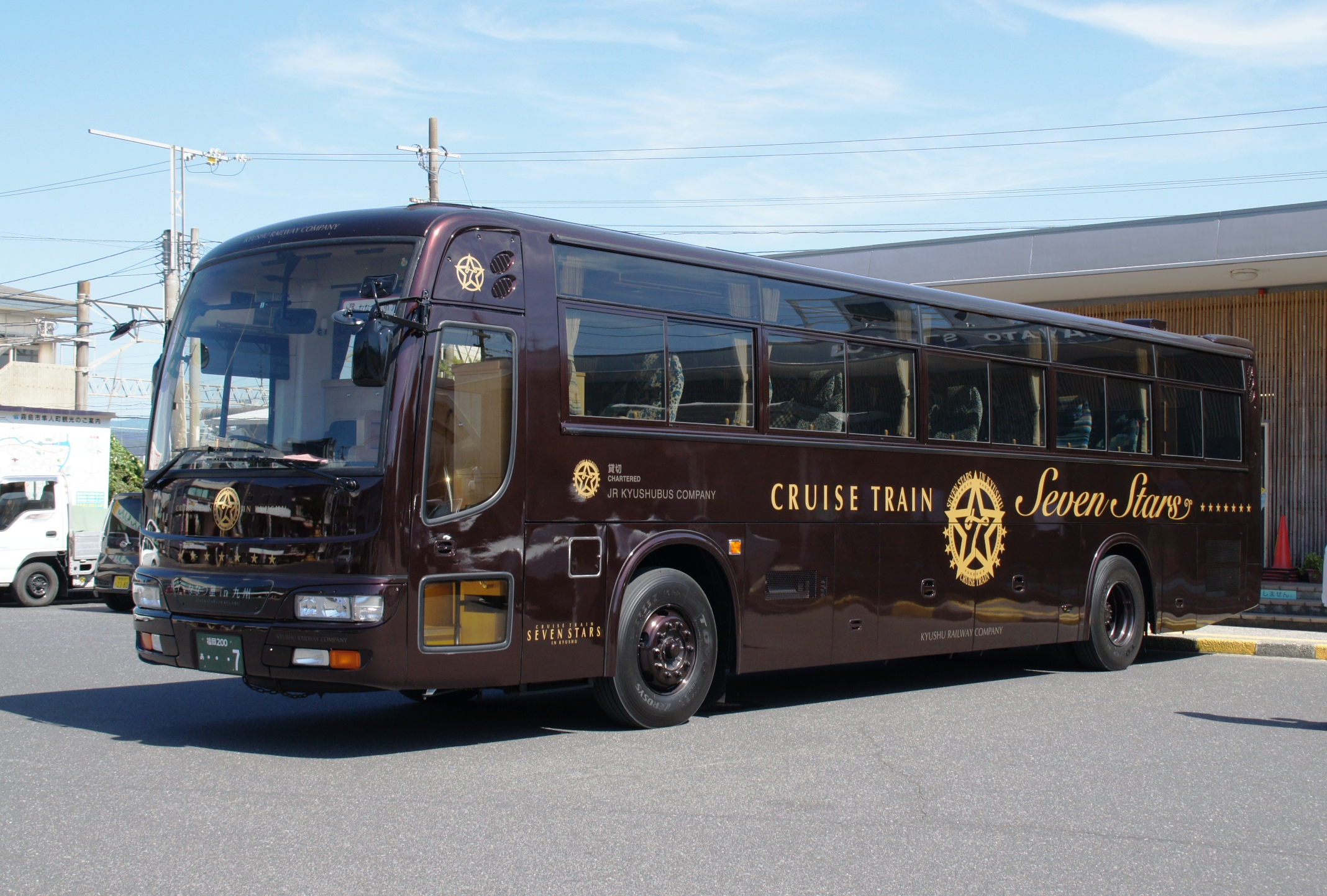 A tour coach for use by passengers on JR Kyushu's Seven Stars in Kyushu cruise train at Hayato Station